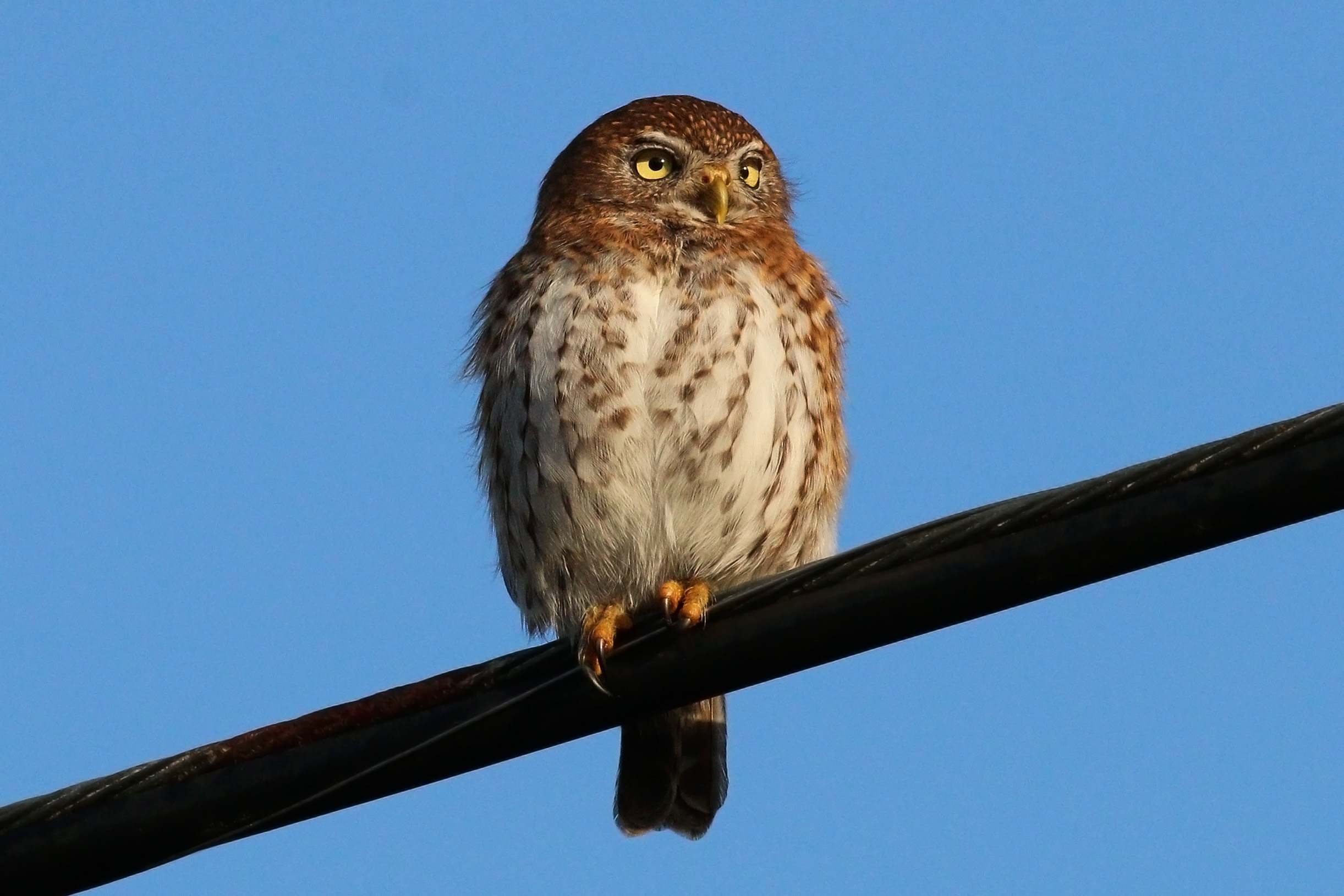 Cuban pygmy-owl (Glaucidium siju siju), Zapata National Park, Cuba